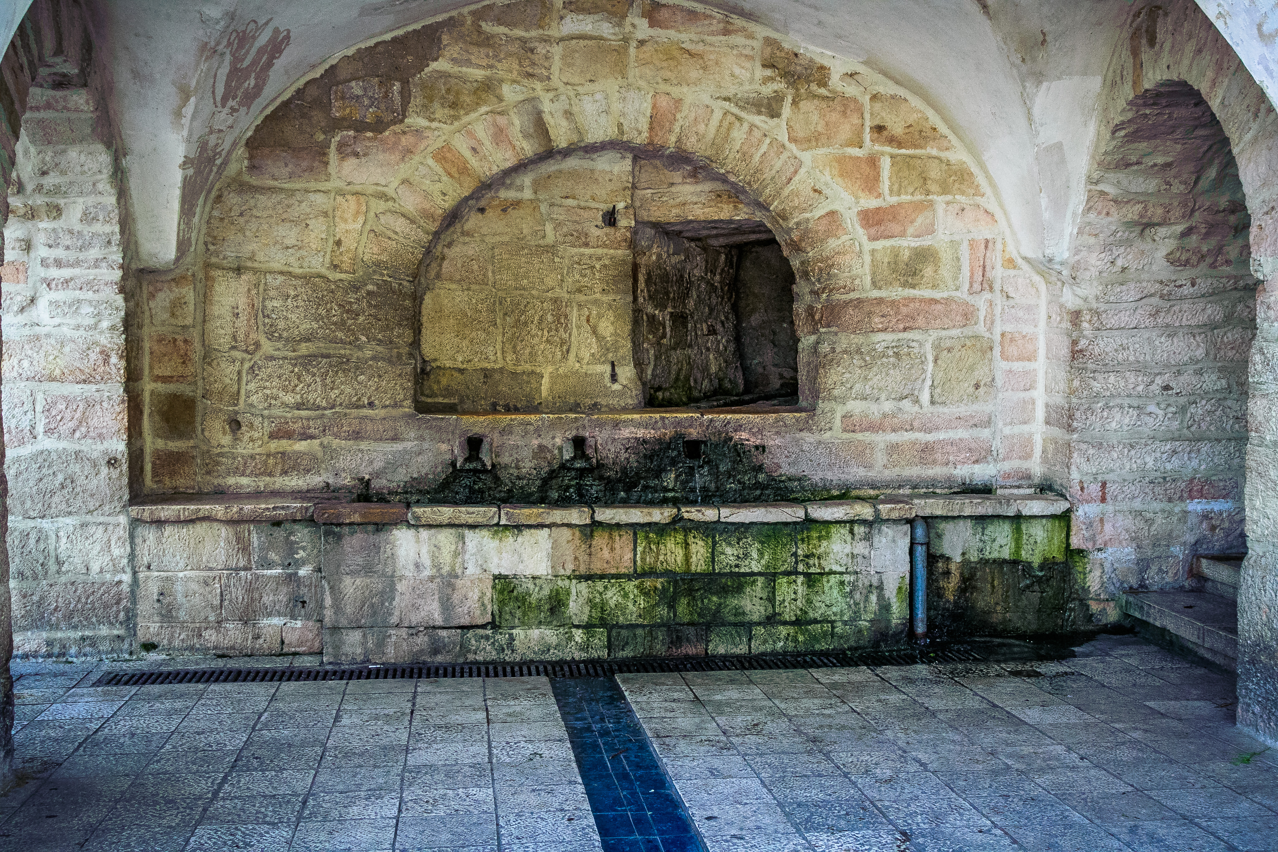 Ein Kerem - Mary's Well